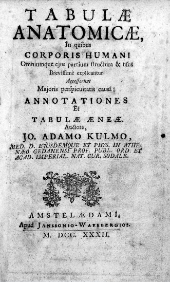 Tabulae Anatomicae